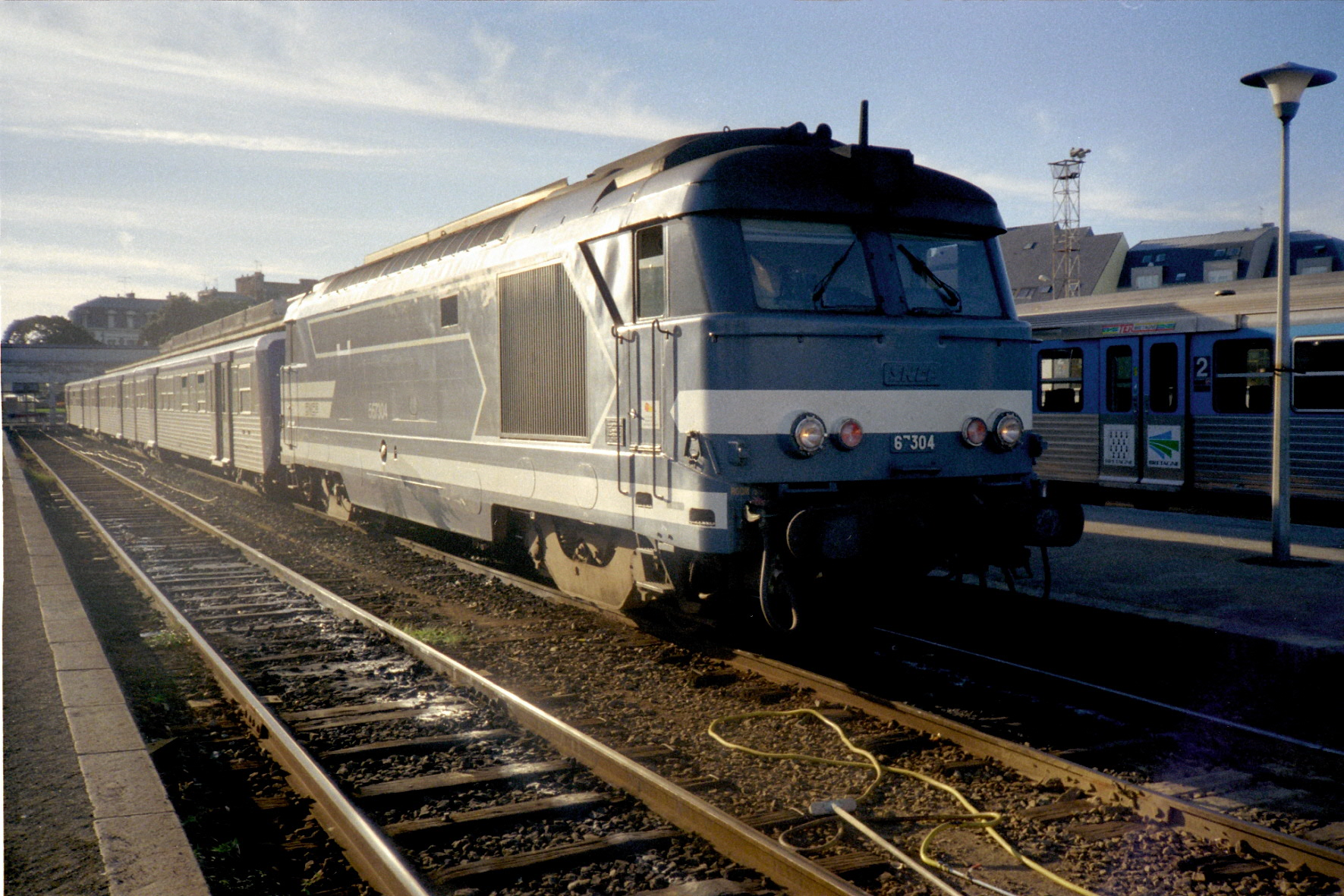 SNCF Class BB 67300, no. BB 67304 at Saint-Malo on 1st September 2001.